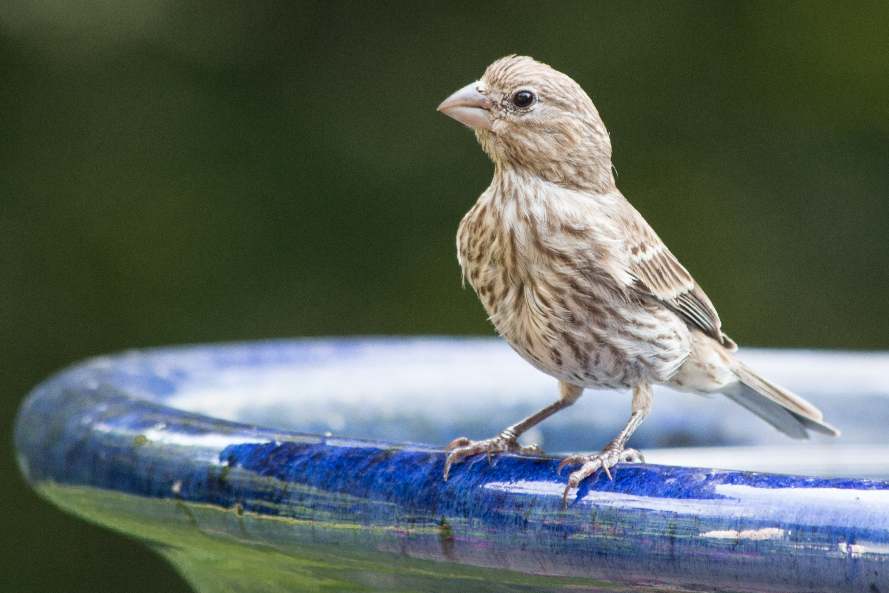 Photograph of an adult female House Finch.